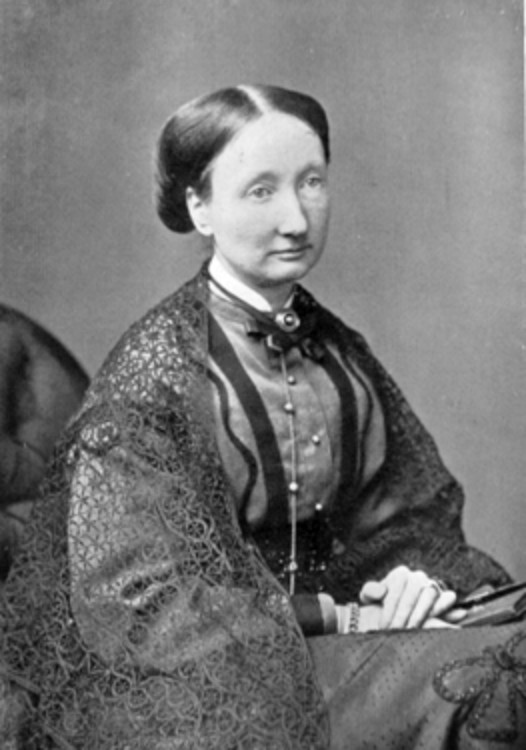 Portrait of Louisa Jane Butler (1822-1897), wife of Francis Galton (1822-1911)